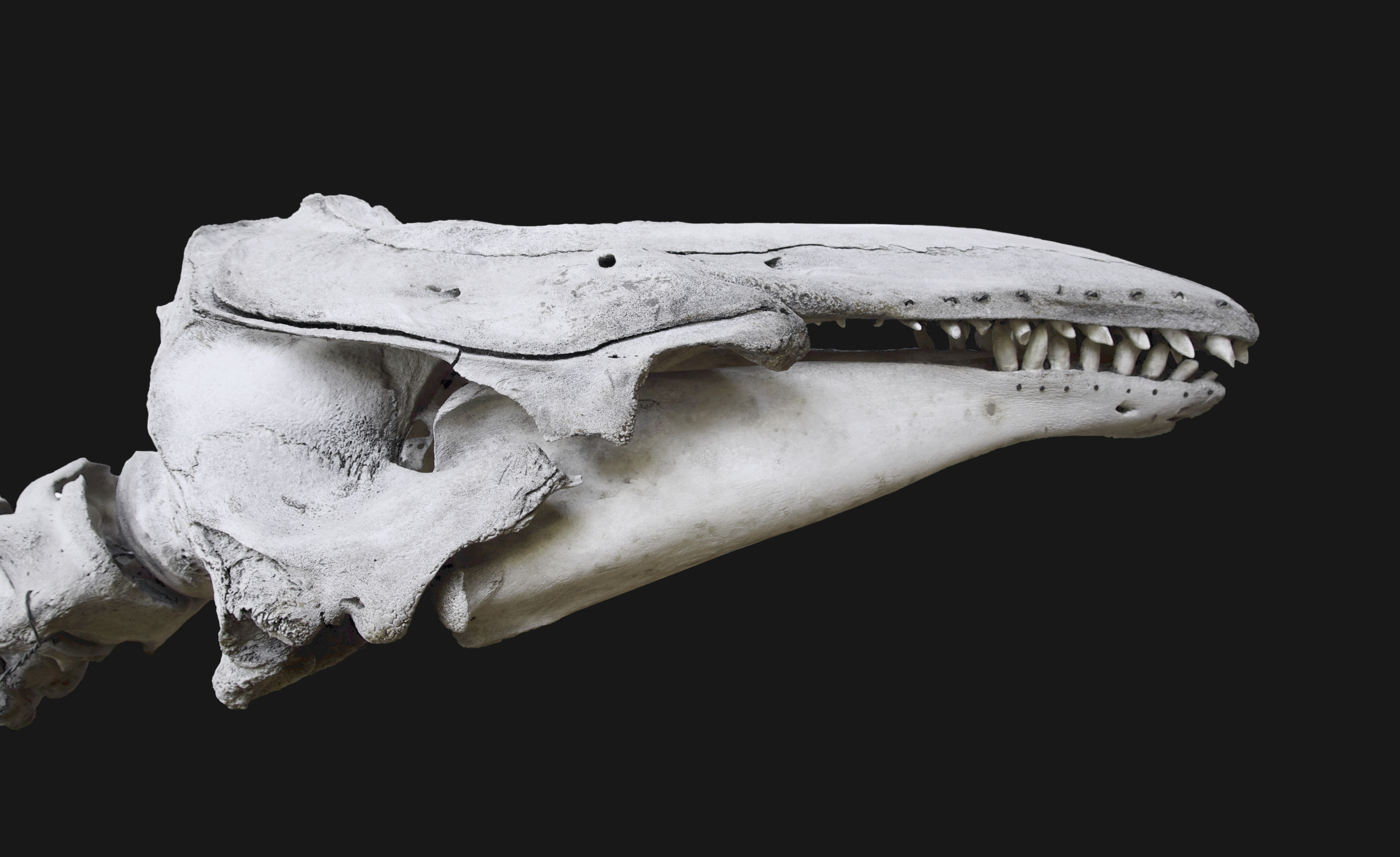 Delphinapterus leucas, Beluga, (White whale), skull. Galleries of Paleontology and Compared Anatomy.